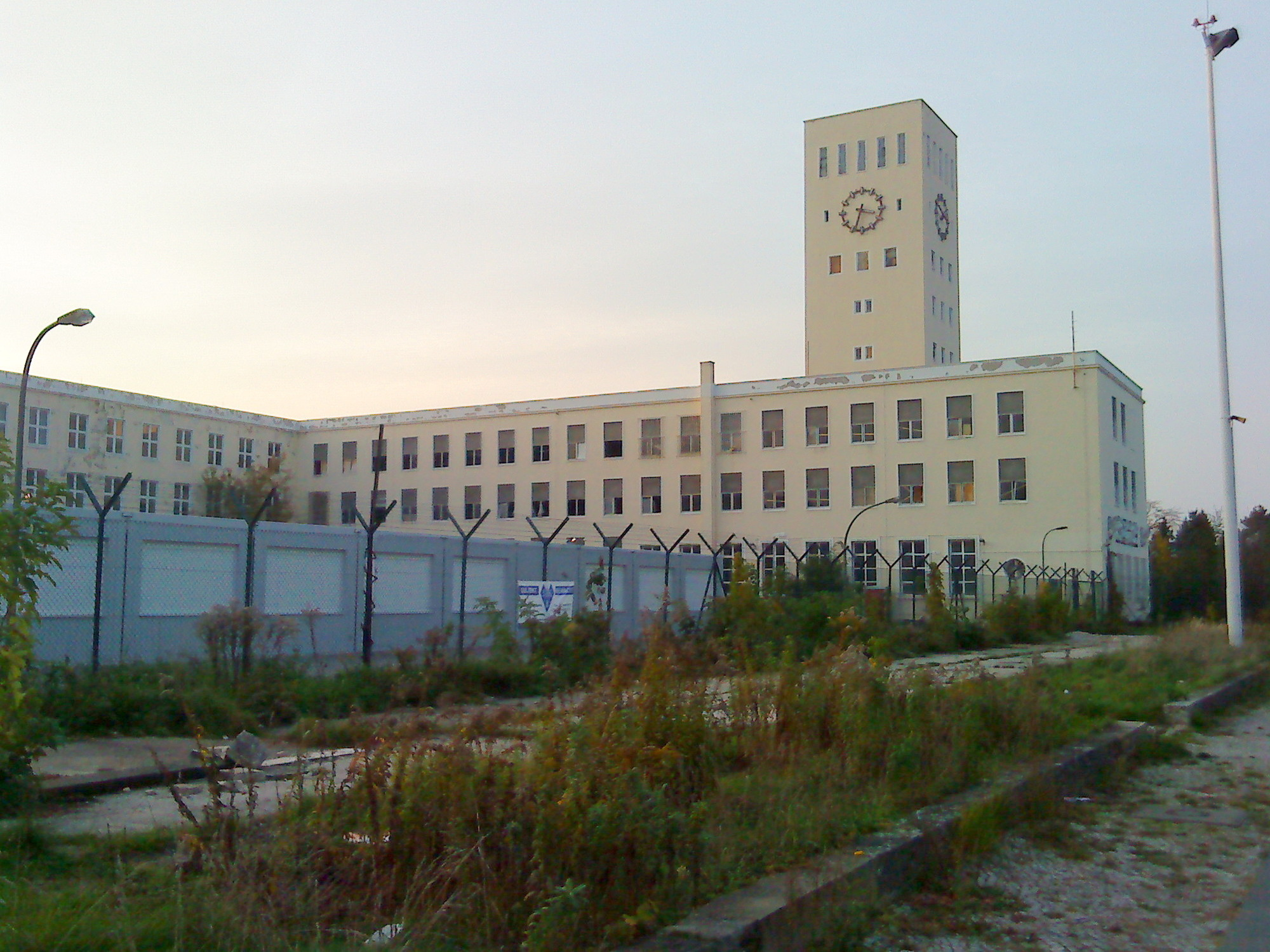 The McNair barracks, located at "Platz des 4. Juli" in Berlin-Lichterfelde (Germany).